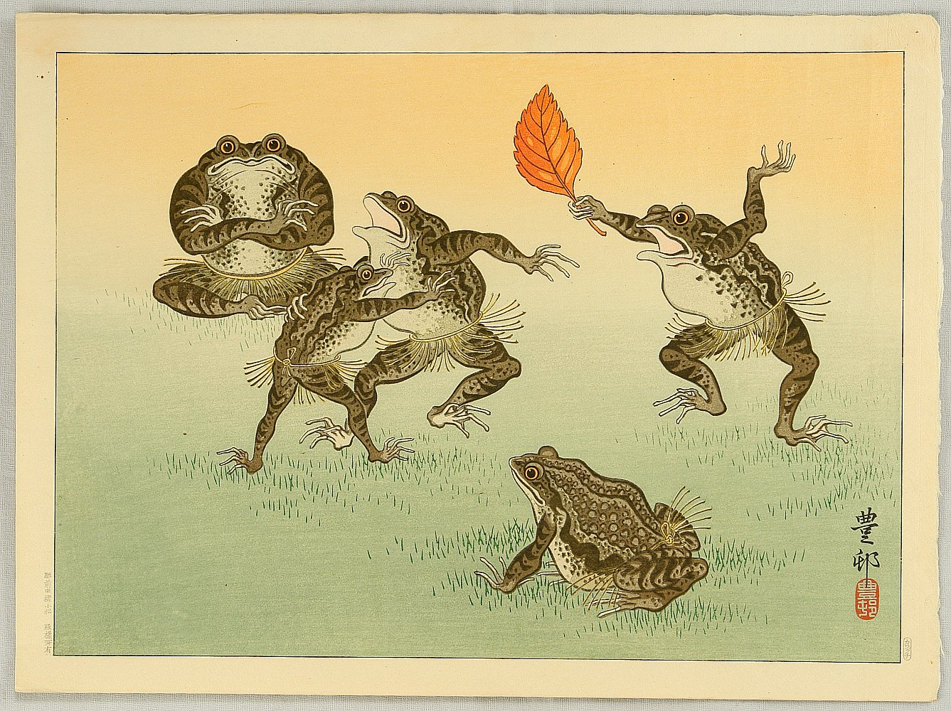 Frog Sumō, Woodblock Print